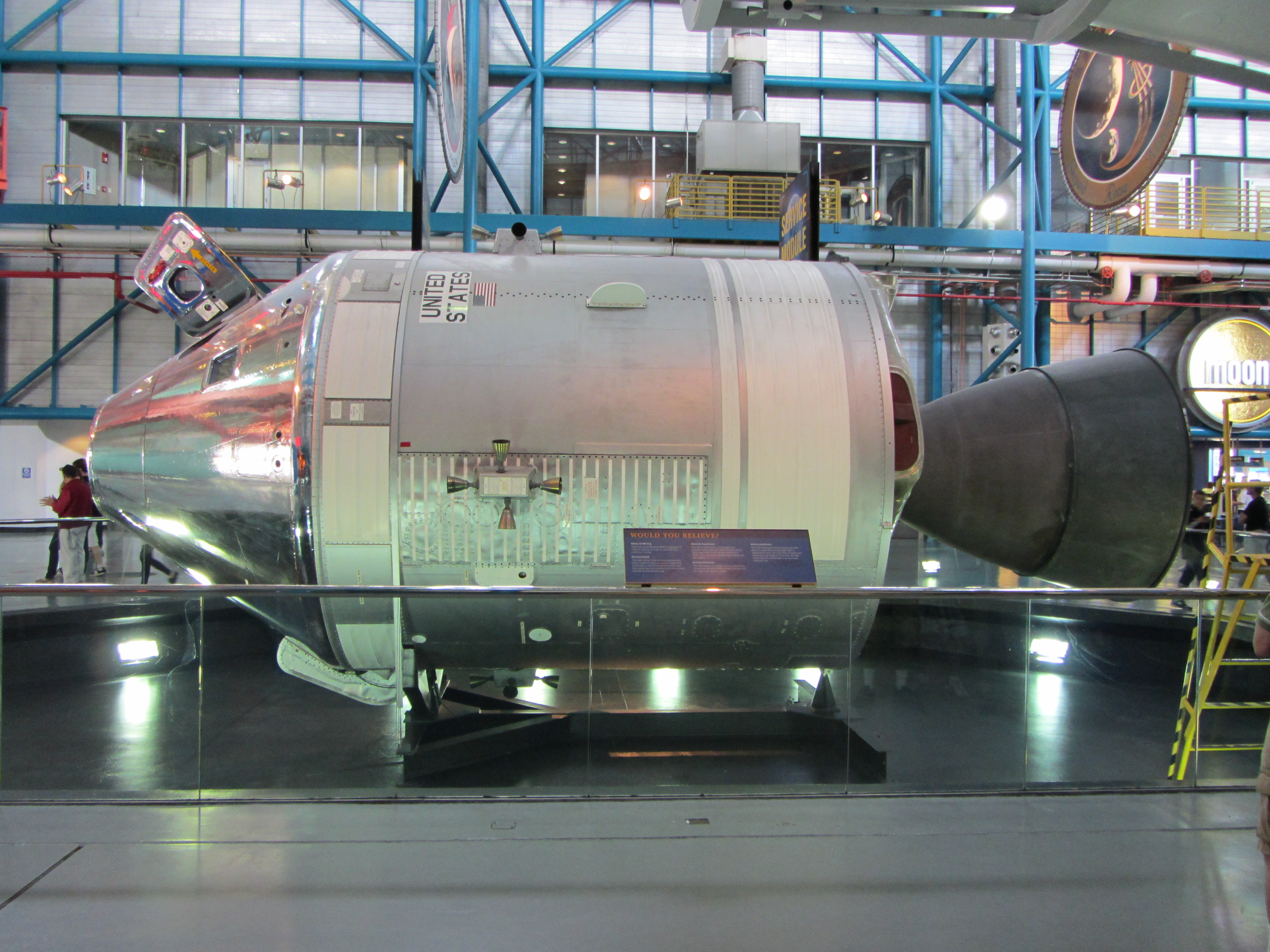 CSM-119 Skylab Rescue Kennedy Space Center, FL